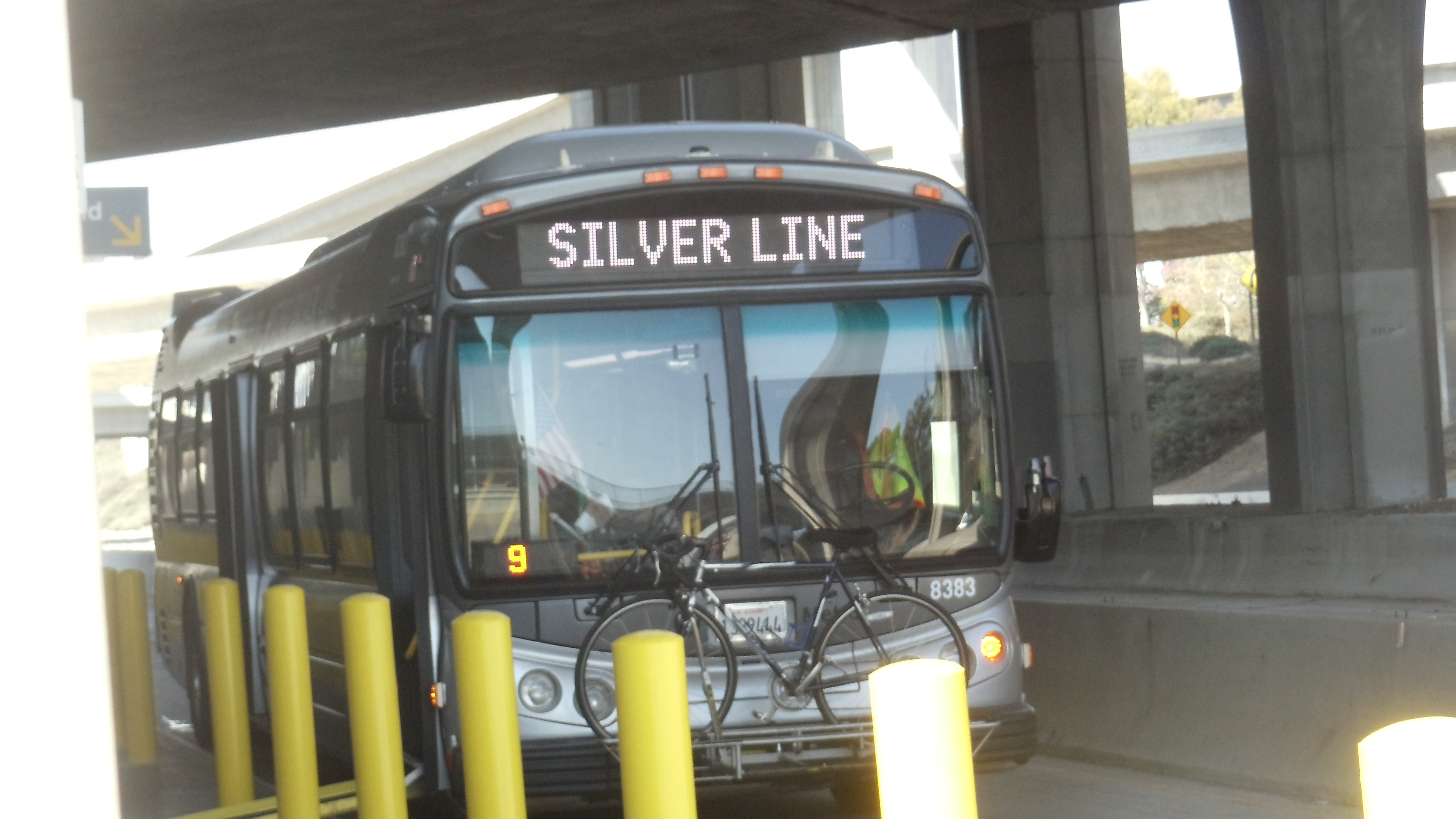 Harbor Freeway Metro Green & Silver Lines Station — in the Harbor Transitway. Metro Silver Line uses NABI 45 Metro Compobuses, and they are painted in the Metro Silver Line livery.